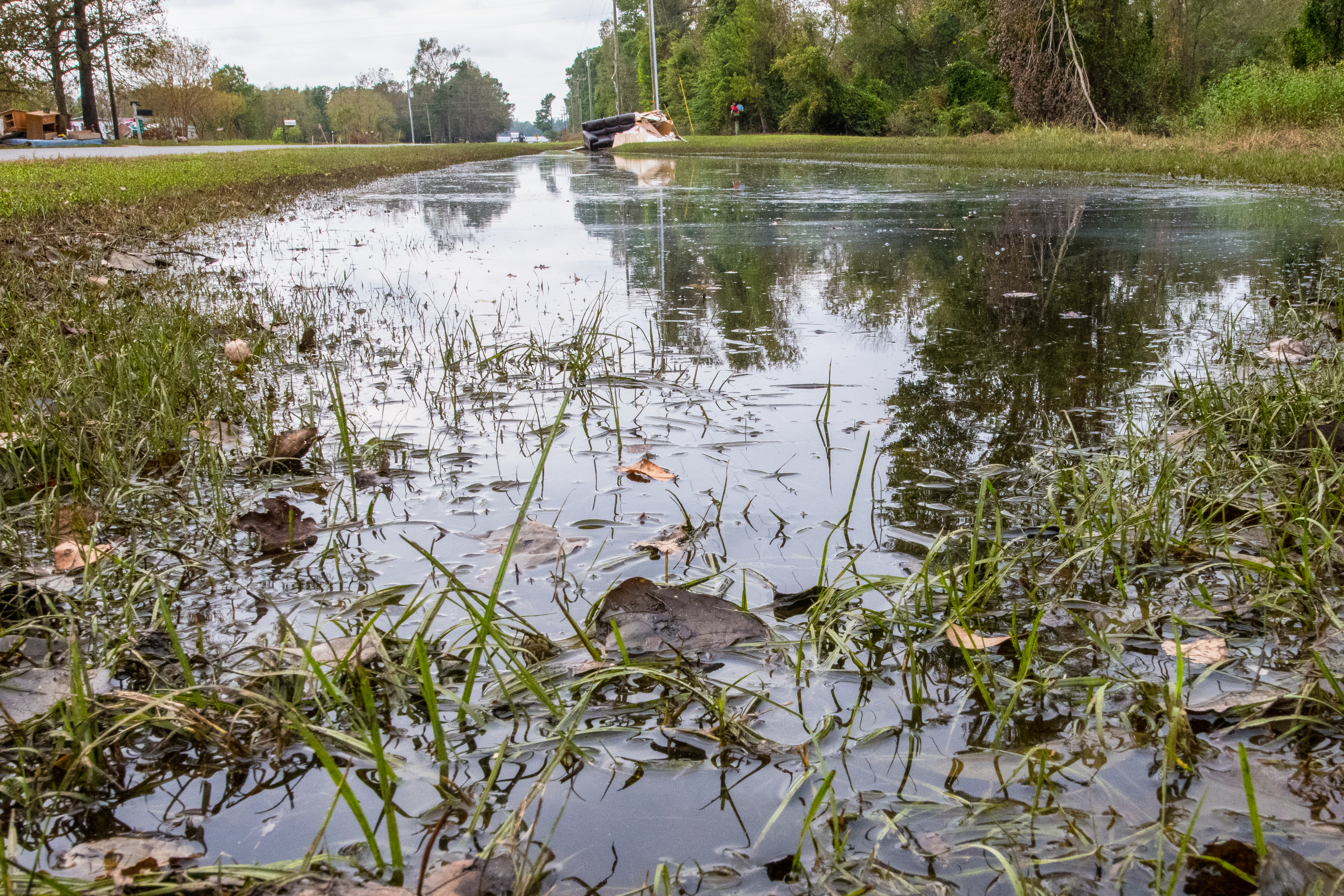 Signs of the effect that Hurricane Florence had on the farms, producers, cities, towns, communities, and people of Duplin County, NC, on Monday, September 24, 2018. USDA photo by Lance Cheung.